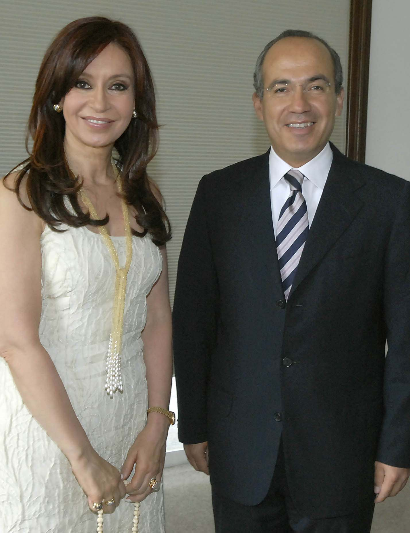 Senator Cristina Fernández de Kirchner and the president of Mexico, Felipe Calderón.